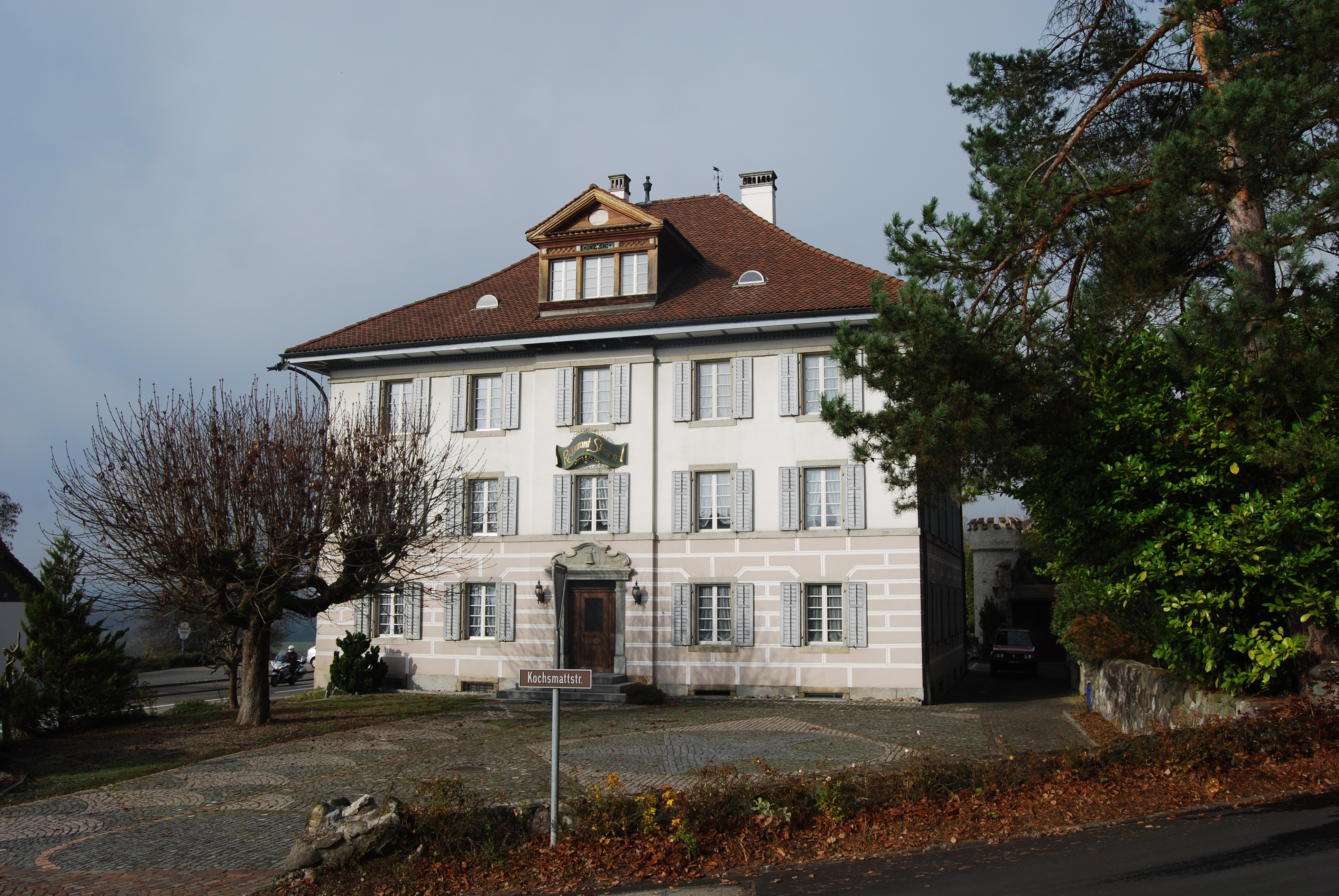 Restaurant Sternen at Eggenwil, canton of Aargau, SwitzerlandEsperanto: Restoracio Sternen en Eggenwil, Kantono Argovio, Svislando